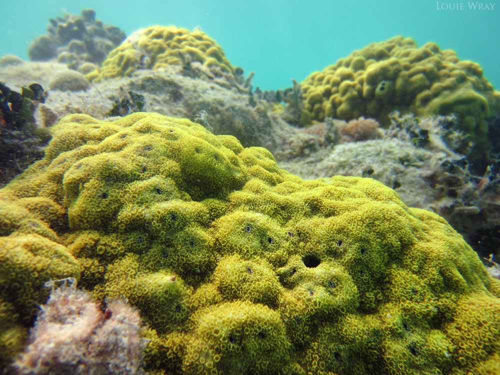 This is a variety of Porites, a small polyp stony Coral from the Florida Keys. They tend to encrust over suitable substrate and then form small domes, and grow well in heavy UV.